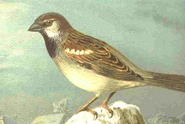 House Sparrow